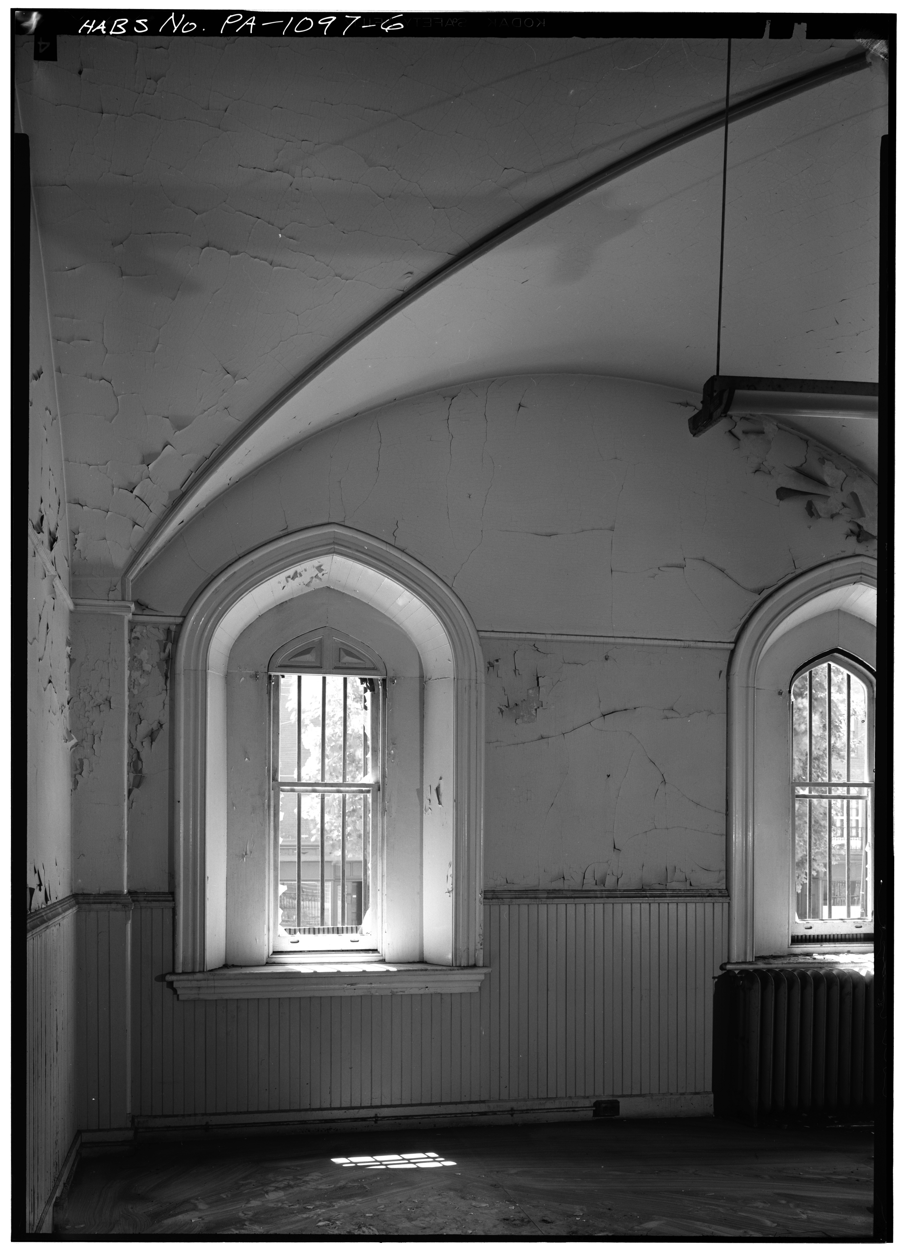 Philadelphia County Prison (Moyamensing Prison) Philadelphia PA. Window Detail, Northeast Room, First Floor. From LOC Historic American Buildings Survey (HABS) PA-1097, Control Number: pa1056. Jack E. Boucher, photographer (July 1965).